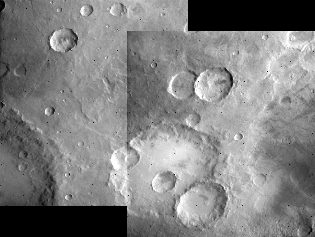 Oblique view of Roddenberry crater (bottom center) on Mars. Mosaic of two Viking 1 images from camera A (576A75 and 576A77). Red filter was used for these images. Resolution is about 210 m/pixel. North is in upper right. Emission Angle: 38.1 Incidence Angle: 67.9 Latitude: -48.0 Longitude: 356.0 Phase Angle: 82.9